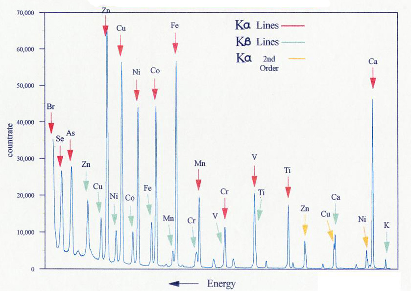 Historical note: this was run as a pressed powder on the scanning channel of the Siemens MRS404 at Blue Circle Cement, Atlanta Plant, in 1995. We had no scandium, gallium or germanium!